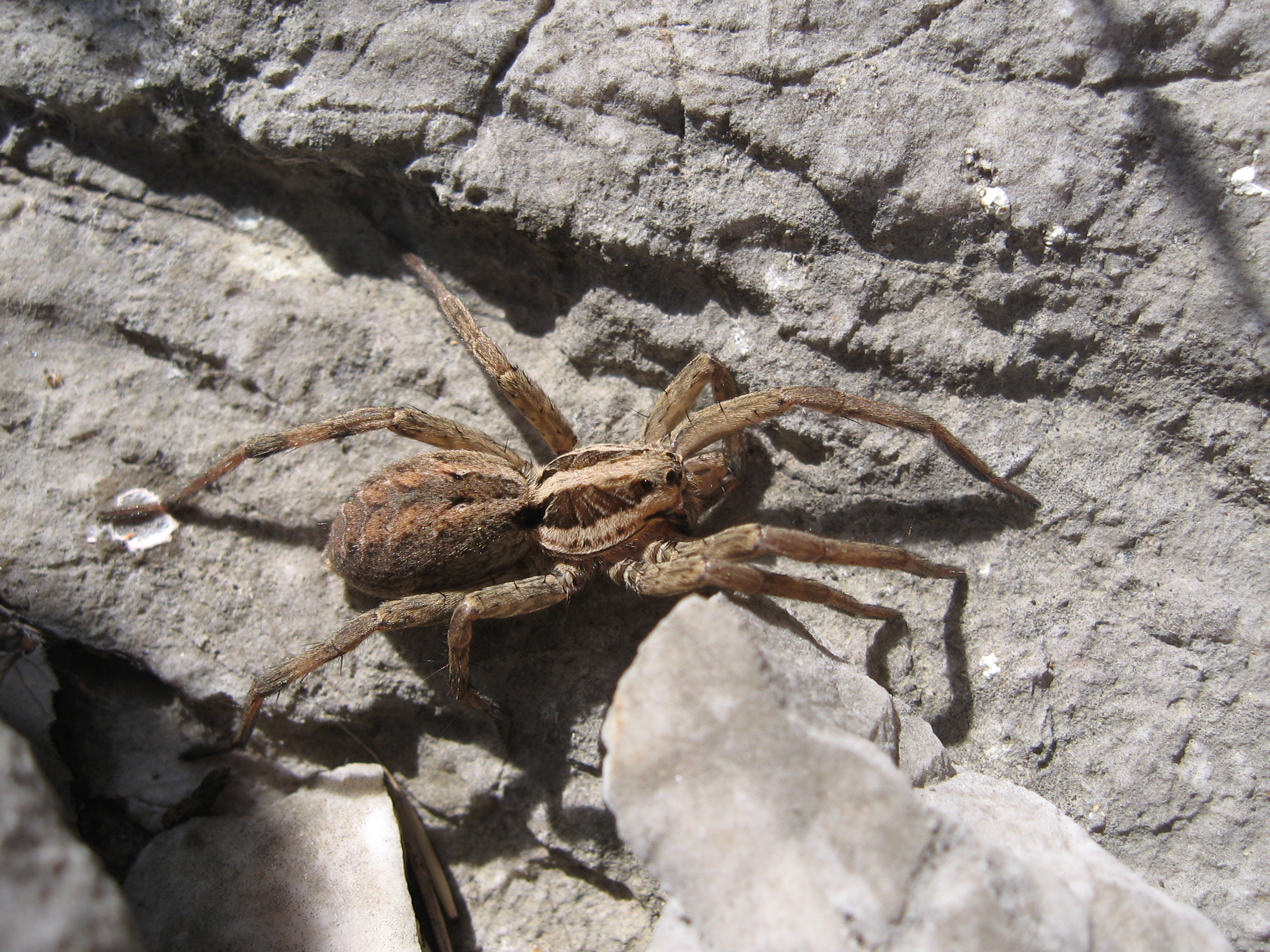 Wolf spider from Krk/Croatia, probably Hogna, perhaps Hogna radiata.